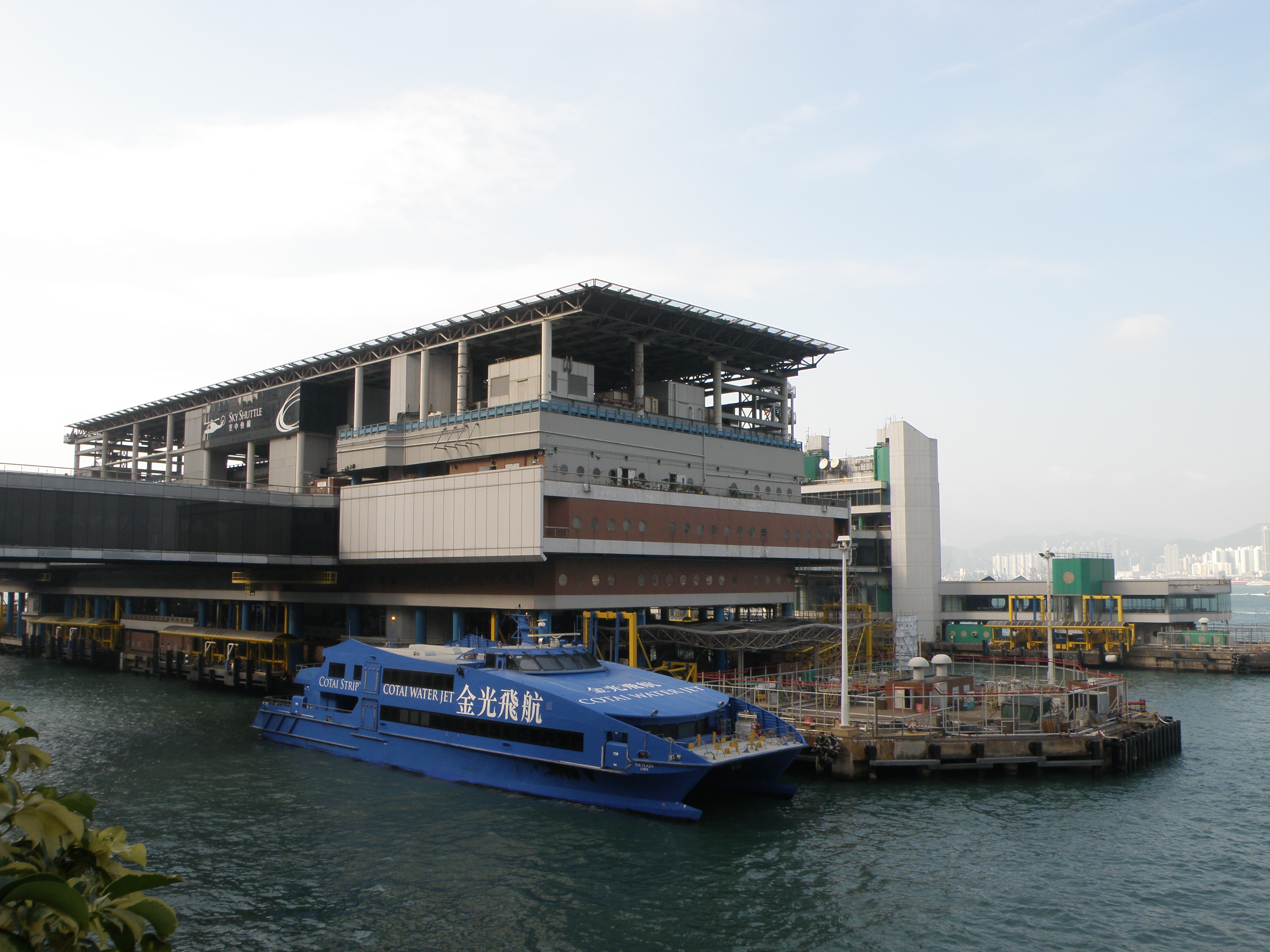 Hong Kong - Macau Ferry Terminal in Sheung Wan, Hong Kong.